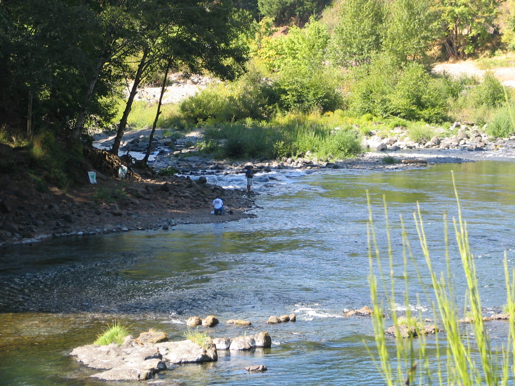 Sport fishermen on the upper Umpqua River in from State Highway 138, Douglas County, Oregon, United States